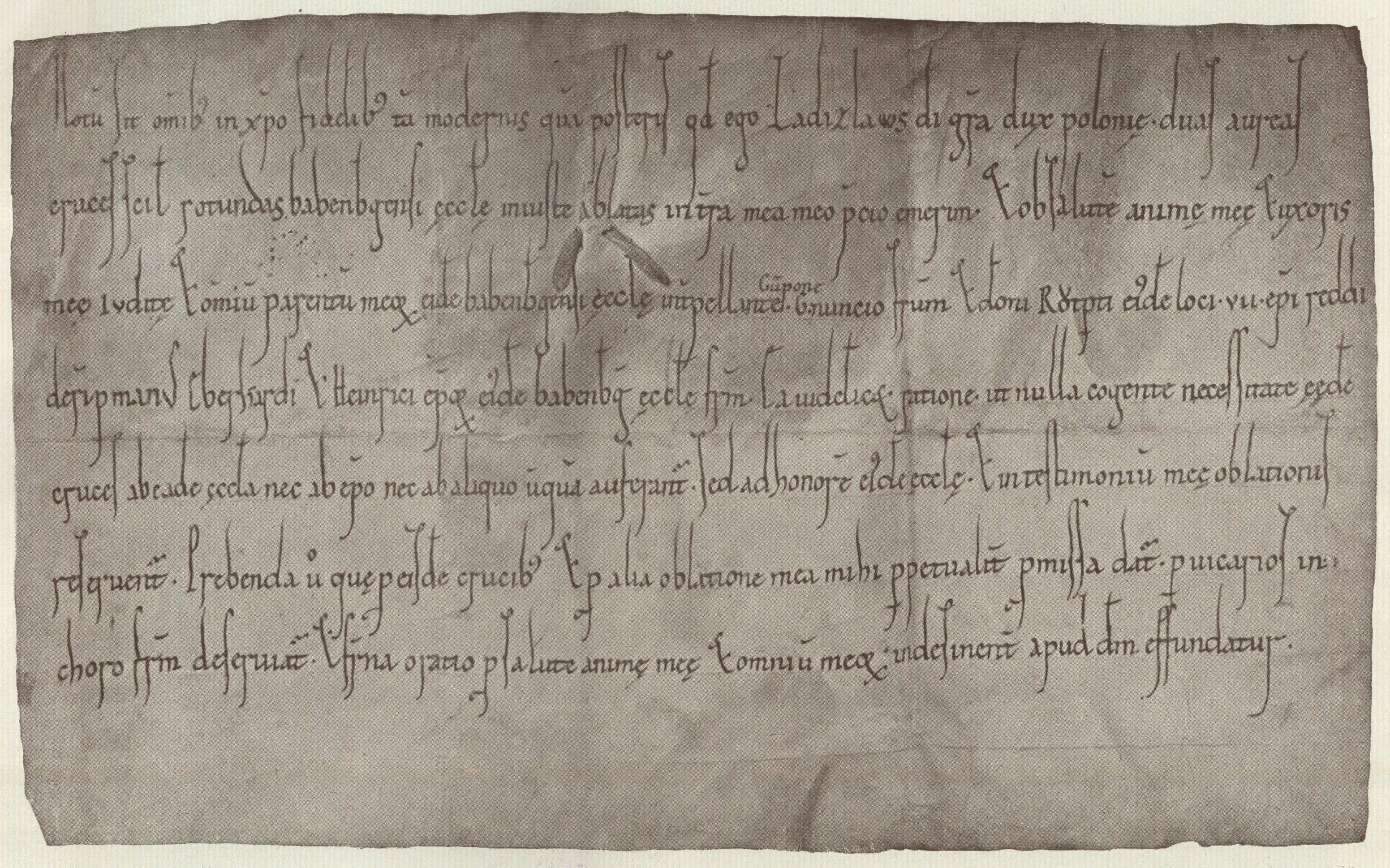 Document of Władysław Herman, Duke of Poland, end of 11th century.